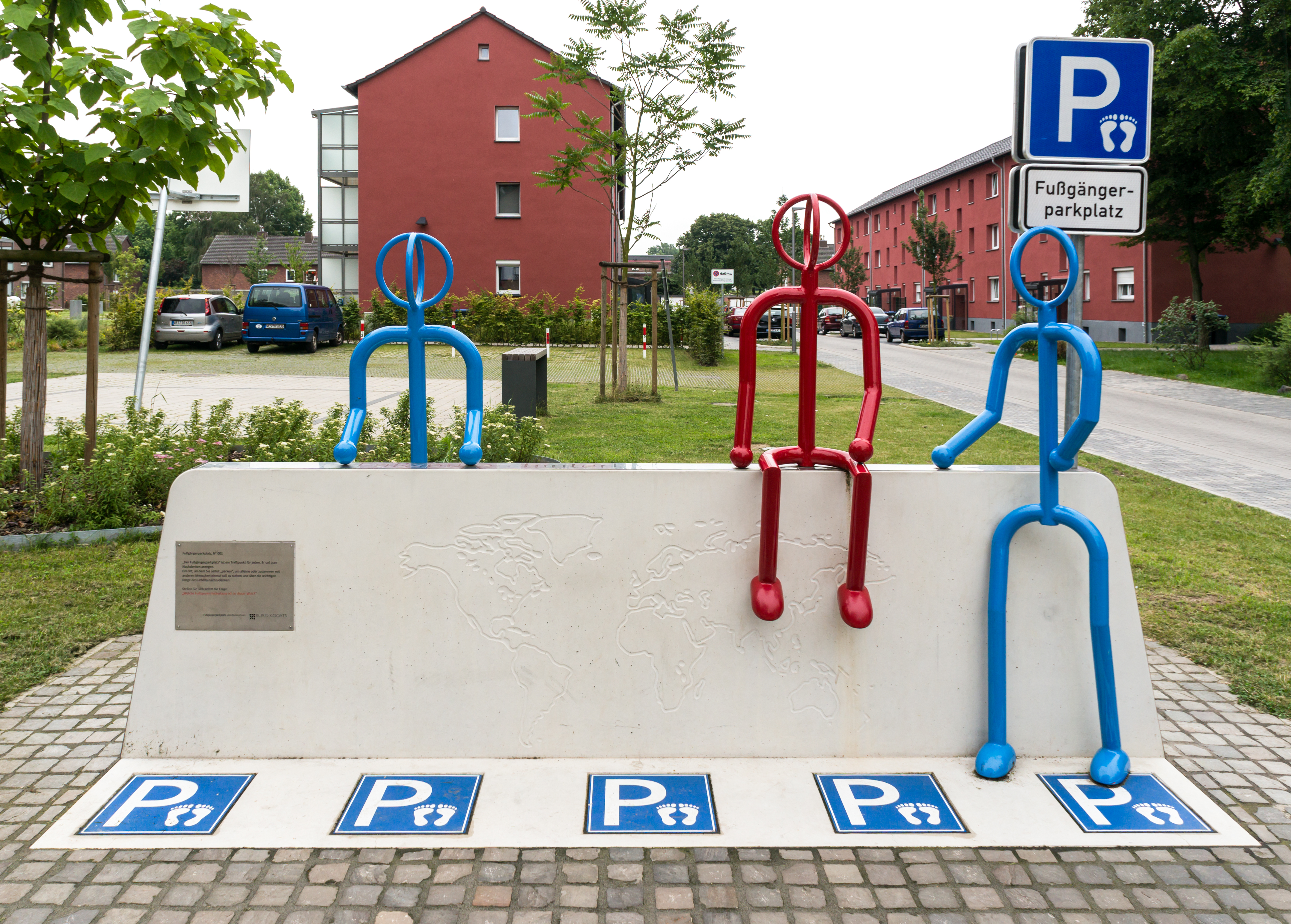 Sculpture “Fußgängerparkplatz”, Wesel, North Rhine-Westphalia, Germany Sculpture TitleFußgängerparkplatzArtistWinfred Ortse, Herman KootDate2012